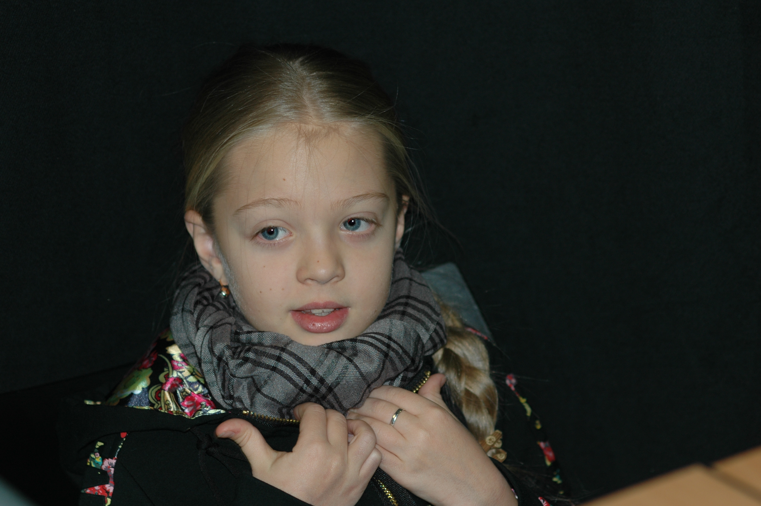 Anastasia Petrik. At Junior Eurovision 2012